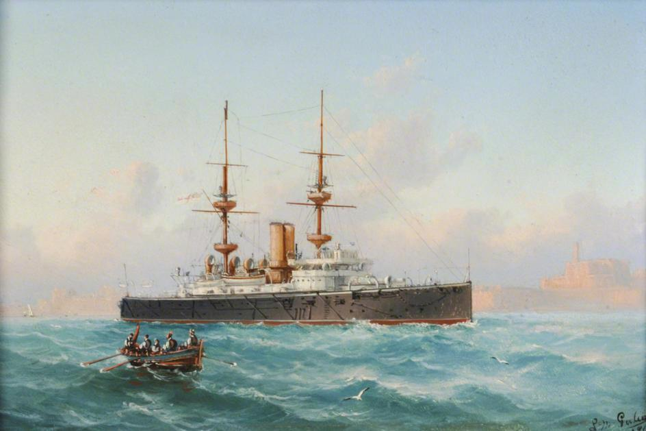 HMS 'Royal Sovereign' off Malta. Oil on board, 29 x 39 cm.